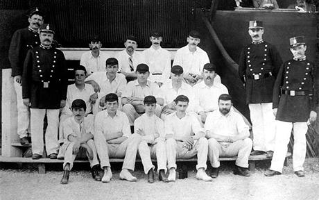 The Great Britain cricket team (actually the Devon and Somerset Wanderers club) that beat France at the final.